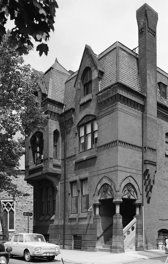 Thomas Hockley House, 235 South Twenty-First Street, Philadelphia, Pennsylvania (1875), Frank Furness and George Hewitt, architects.